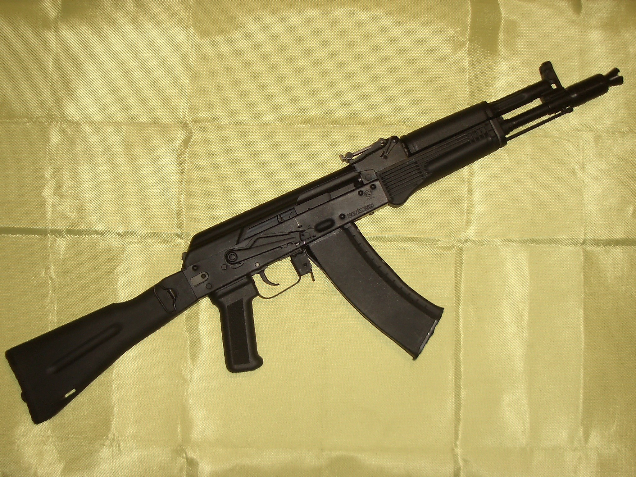 AK-105, Kalashnikov small assault rifle for cartridge 5.45х39